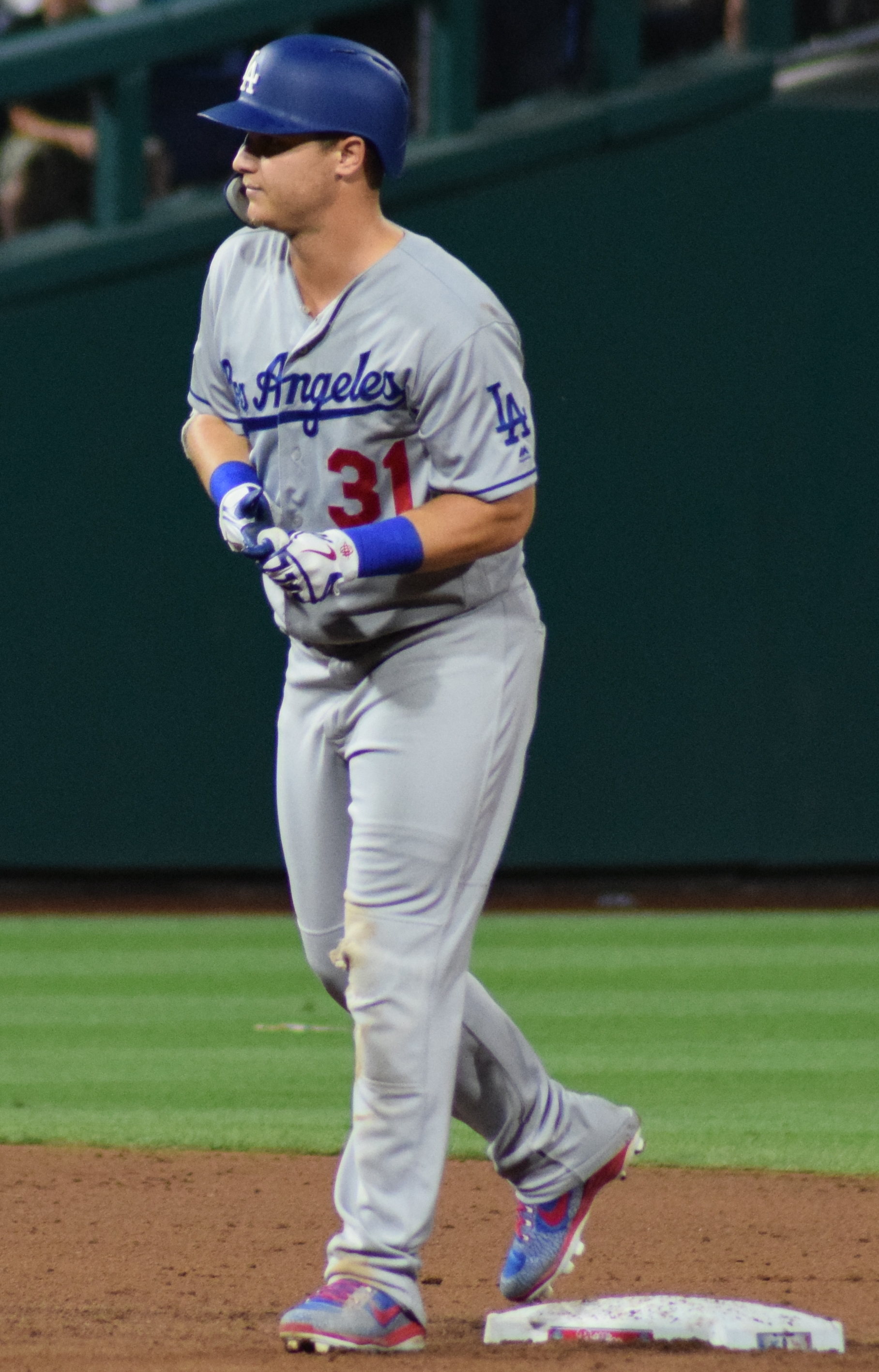 Joc Pederson